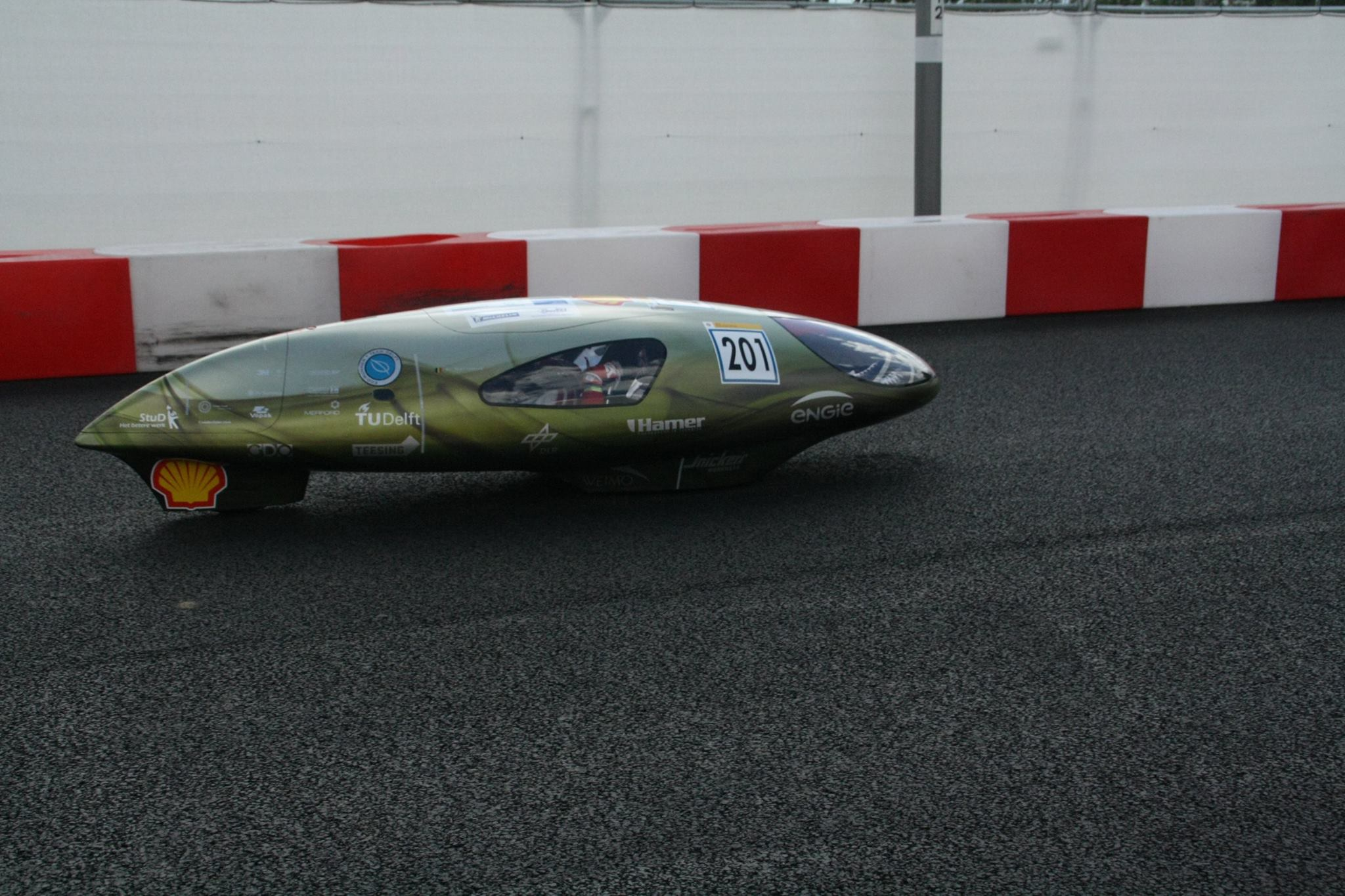 The photograph of Eco-Runner 6